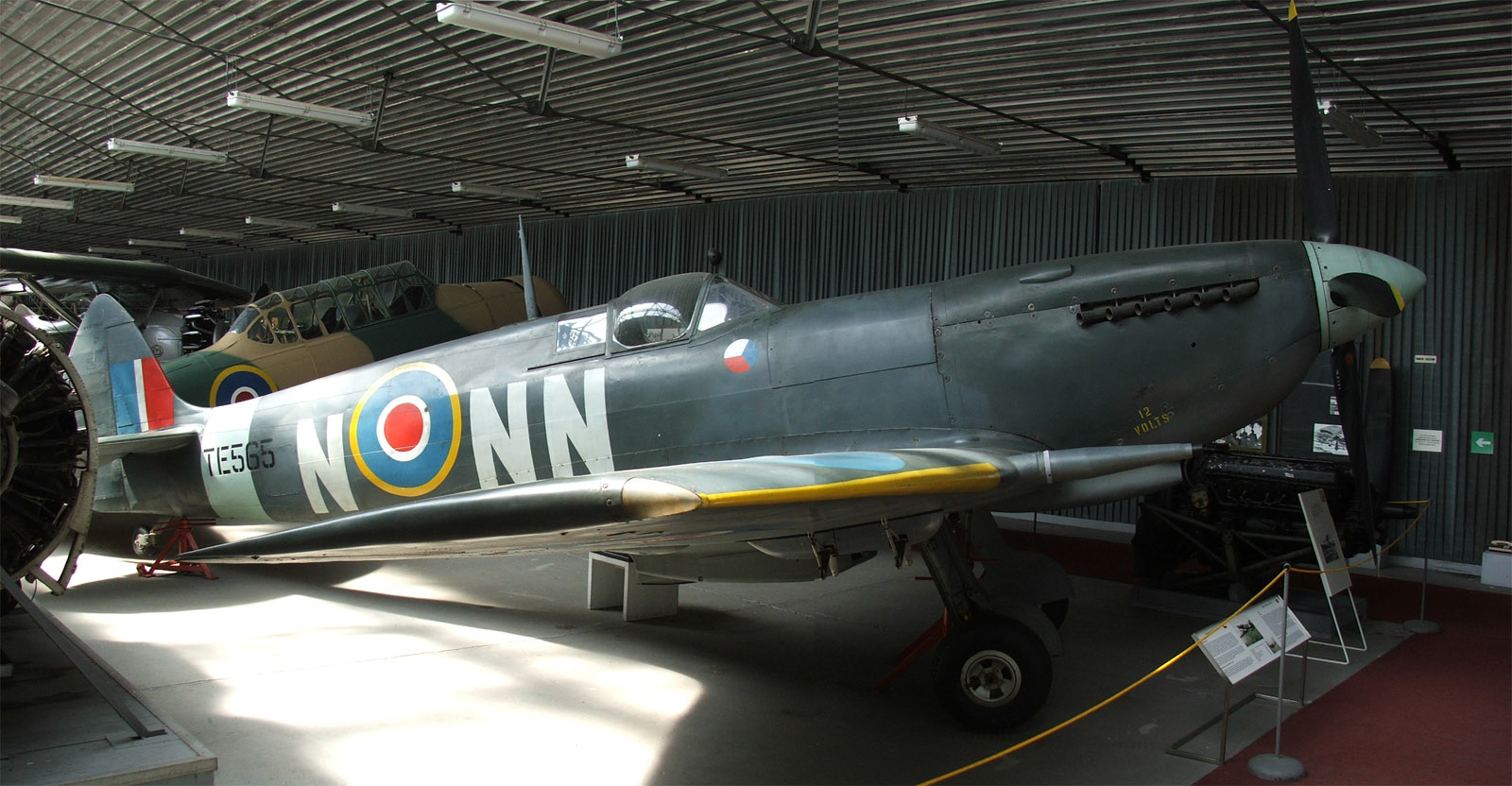 Supermarine Spitfire Mk.IX, Aviation Museum Prague Kbely, marking of No. 310 Squadron RAF - composed out of two pics. The airplane is currently on display in National Technical Museum in Prague.